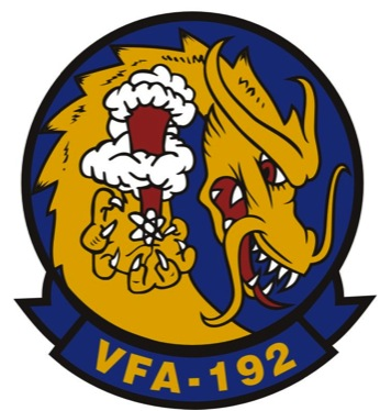 VFA-192 Lemoore Patch derived from VA-192 Patch.